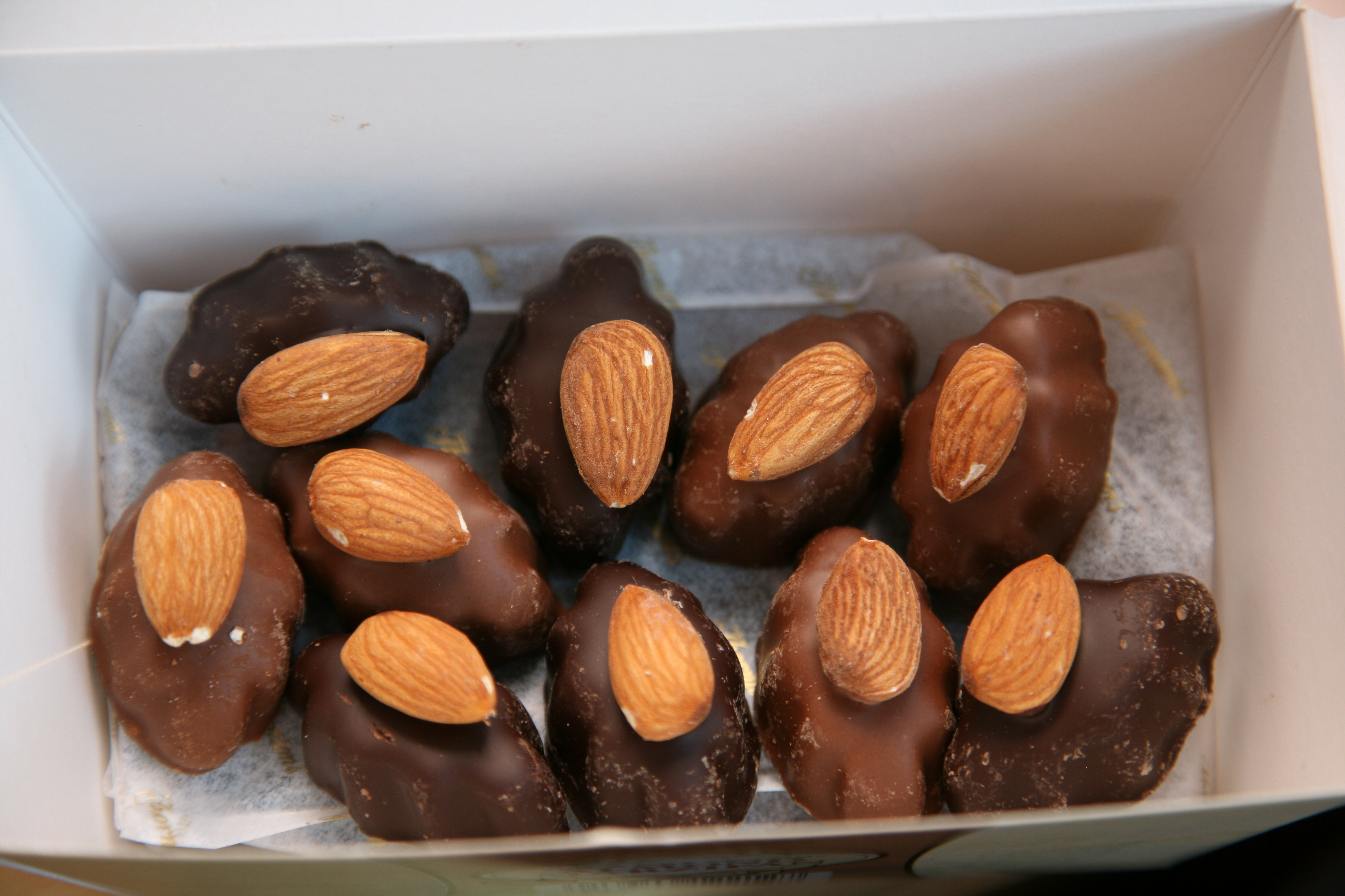 Thorntons chocolate marzipan (milk chocolate and dark chocolate) with almonds on top. Photograph taken by Stratford490.